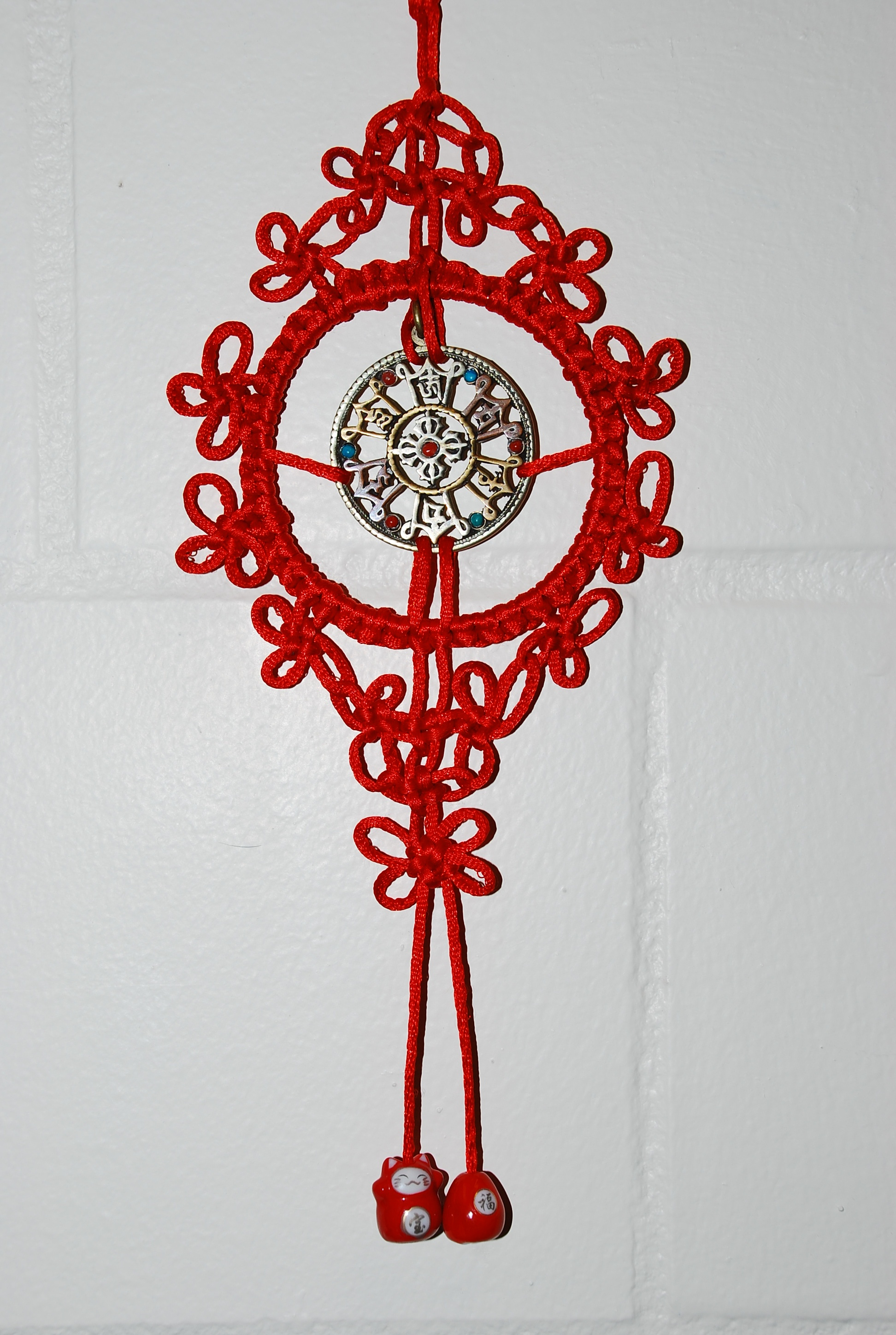 A Chinese knot made by myself